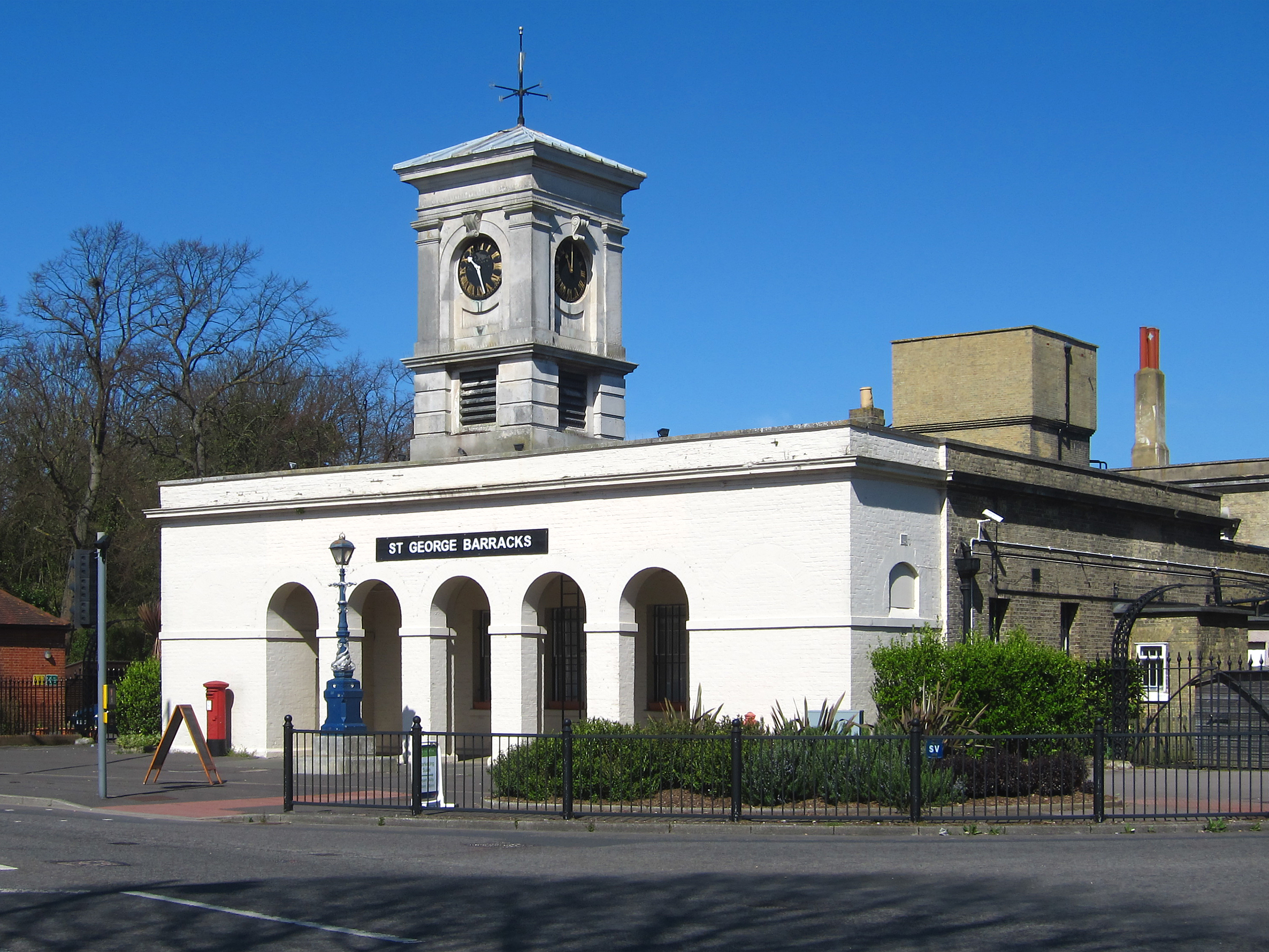 Guard House At Entrance To North Section, St George'S Barracks Wikidata has entry Q26527311 with data related to this item.